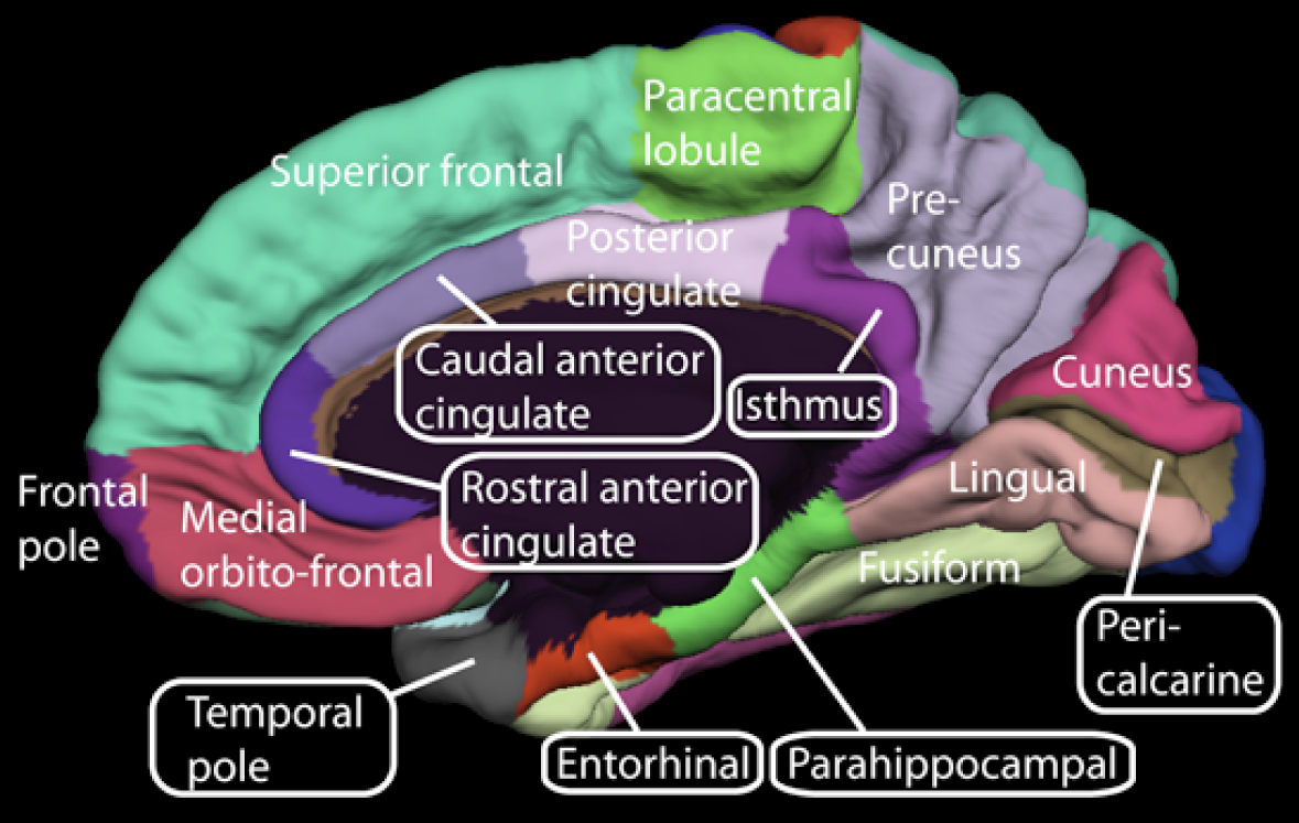 gyri - anatomical subregions of cerebral cortex.